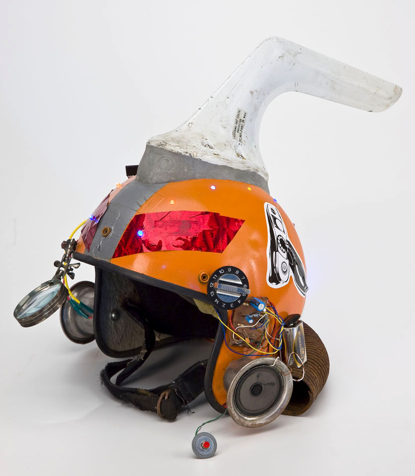 Gambiological helmet